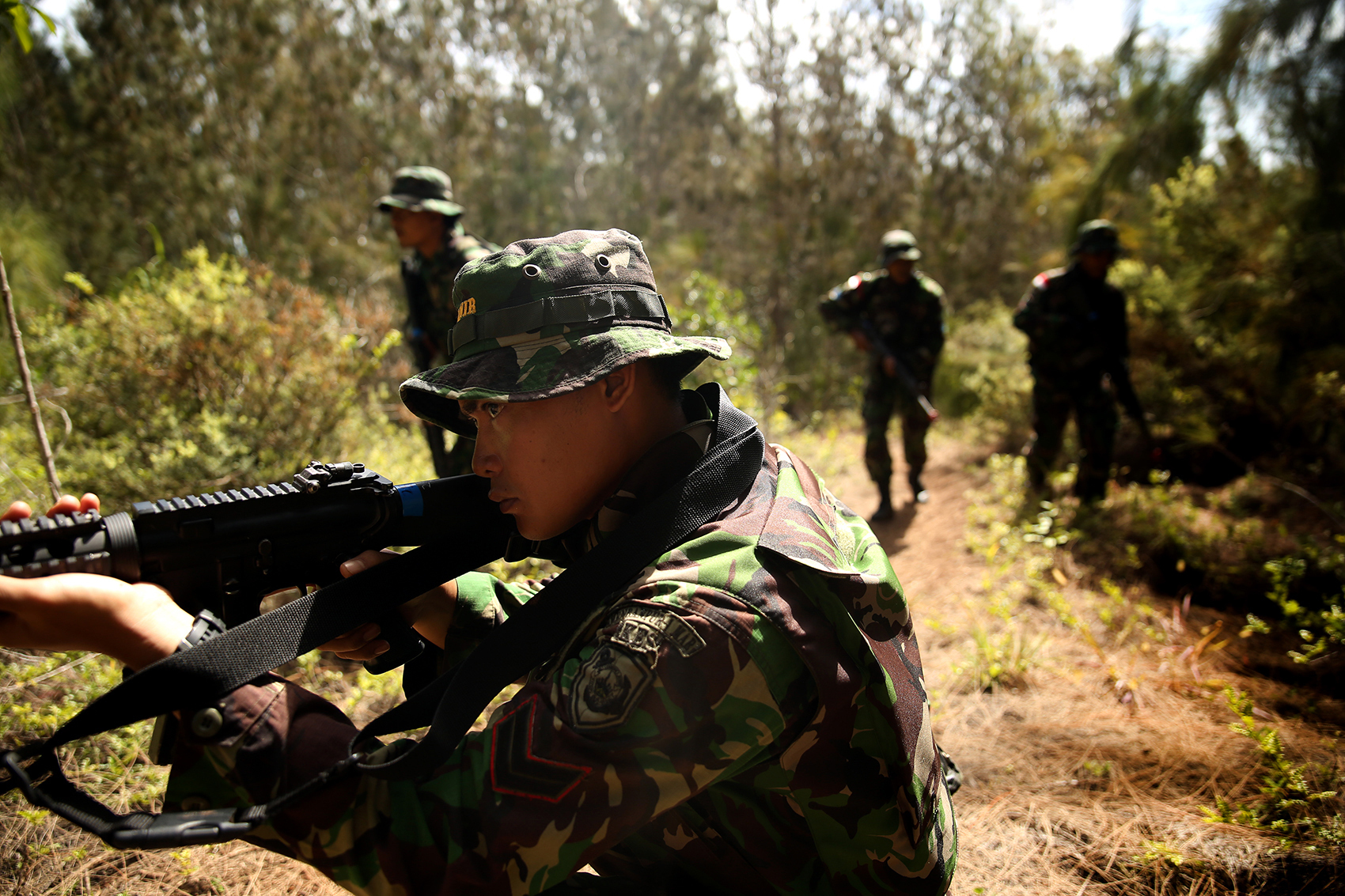 Indonesian marine 1st Sgt. Aditia Febrianto, holds security on an avenue of approach as the rest of his marines cross during a reconnaissance patrol. The Indonesians, from various units of the Korps Marinir, trained with U.S. Marines assigned to India Company, 3rd Battalion, 3rd Marine Regiment during Rim of the Pacific (RIMPAC) Exercise 2014. Twenty-two nations, 49 ships and six submarines, more than 200 aircraft and 25,000 personnel are participating in RIMPAC from June 26 to Aug. 1 in and around the Hawaiian Islands and Southern California. The world's largest international maritime exercise, RIMPAC provides a unique training opportunity that helps participants foster and sustain the cooperative relationships that are critical to ensuring the safety of sea lanes and security on the world's oceans. RIMPAC 2014 is the 24th exercise in the series that began in 1971. (U.S. Marine Corps photo by Cpl. Matthew Callahan/Released)